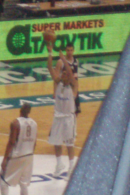 Nikos Hatzivrettas, greek basketballplayer